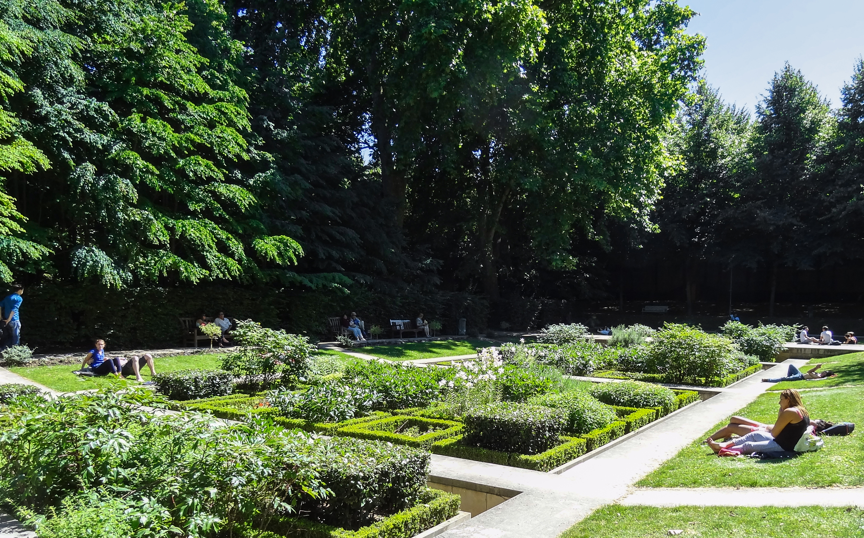 The Jardin des Senteurs, a more formal section of gardens within Jardin Yitzhak Rabin, featuring landscaped plants and flowerbeds.